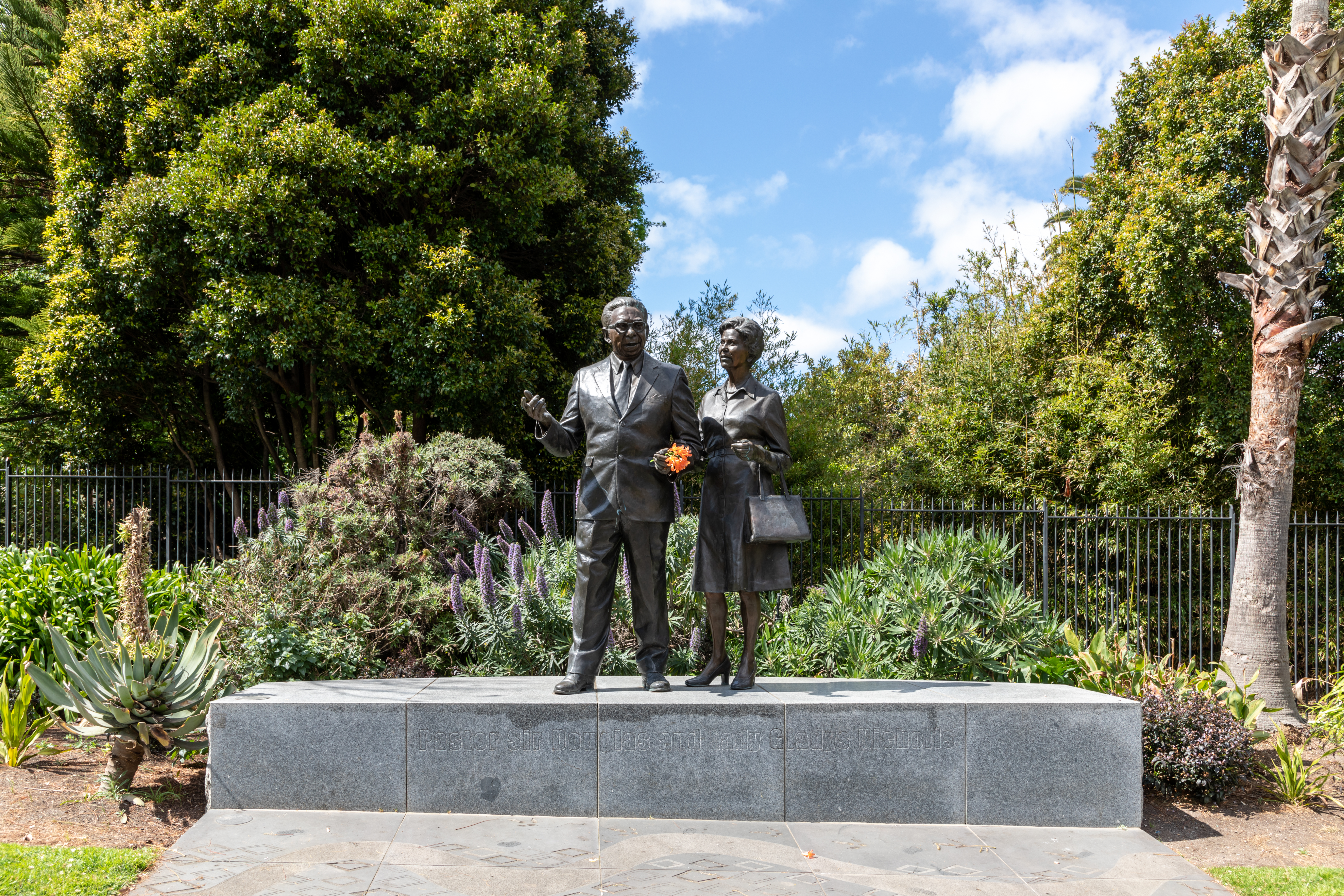 Pastor Sir Douglas and Lady Gladys Nicholls Memorial (Louis Laumen, 2007), Melbourne, Victoria, Australia Sculpture TitlePastor Sir Douglas and Lady Gladys Nichols MemorialArtistLouis LaumenDate2007